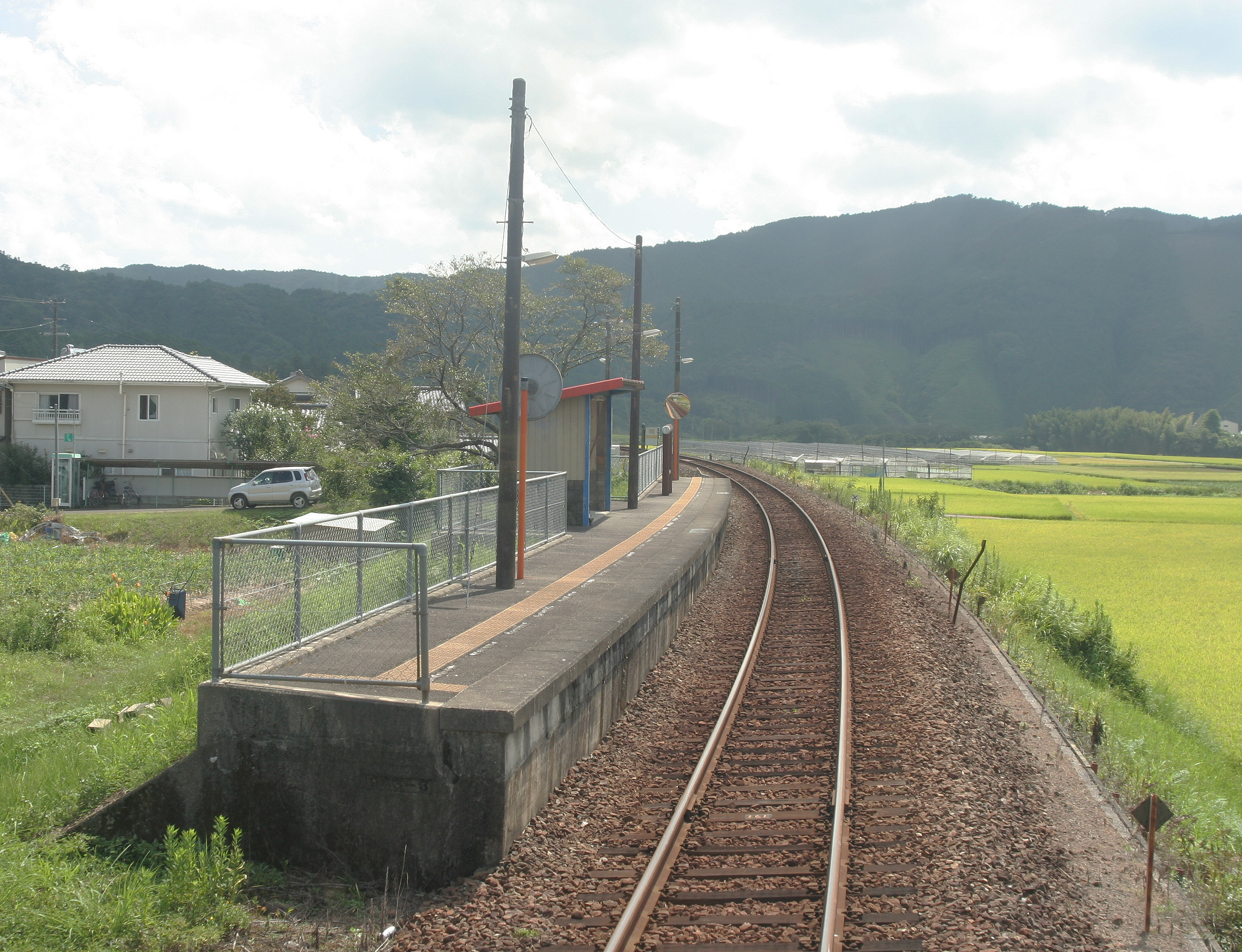 Tosa Kuroshio Railway Wakai Station enclosure